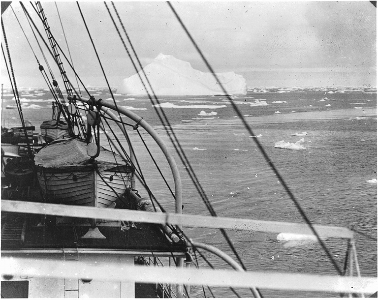 Iceberg seen from ship's deck, about 1919